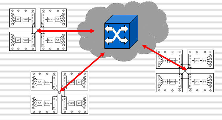 Model of Fabric of Security